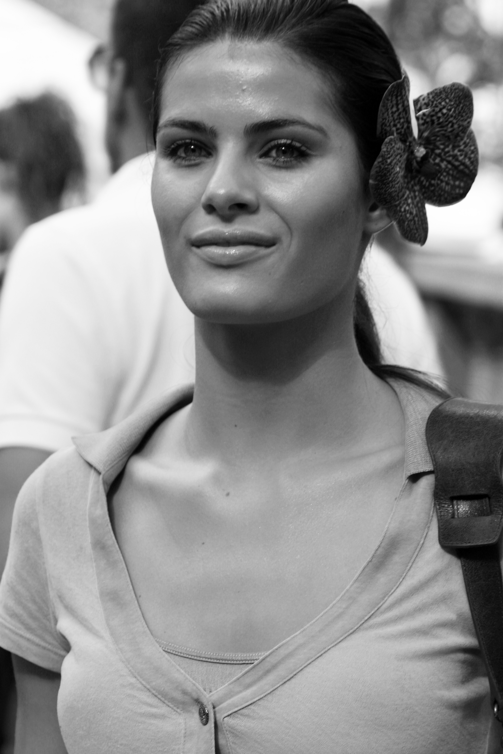 Supermodel Isabeli Bergossi Fontana outside the Bryant Park tents during the Mercedes-Benz Fashion Week shows in New York City